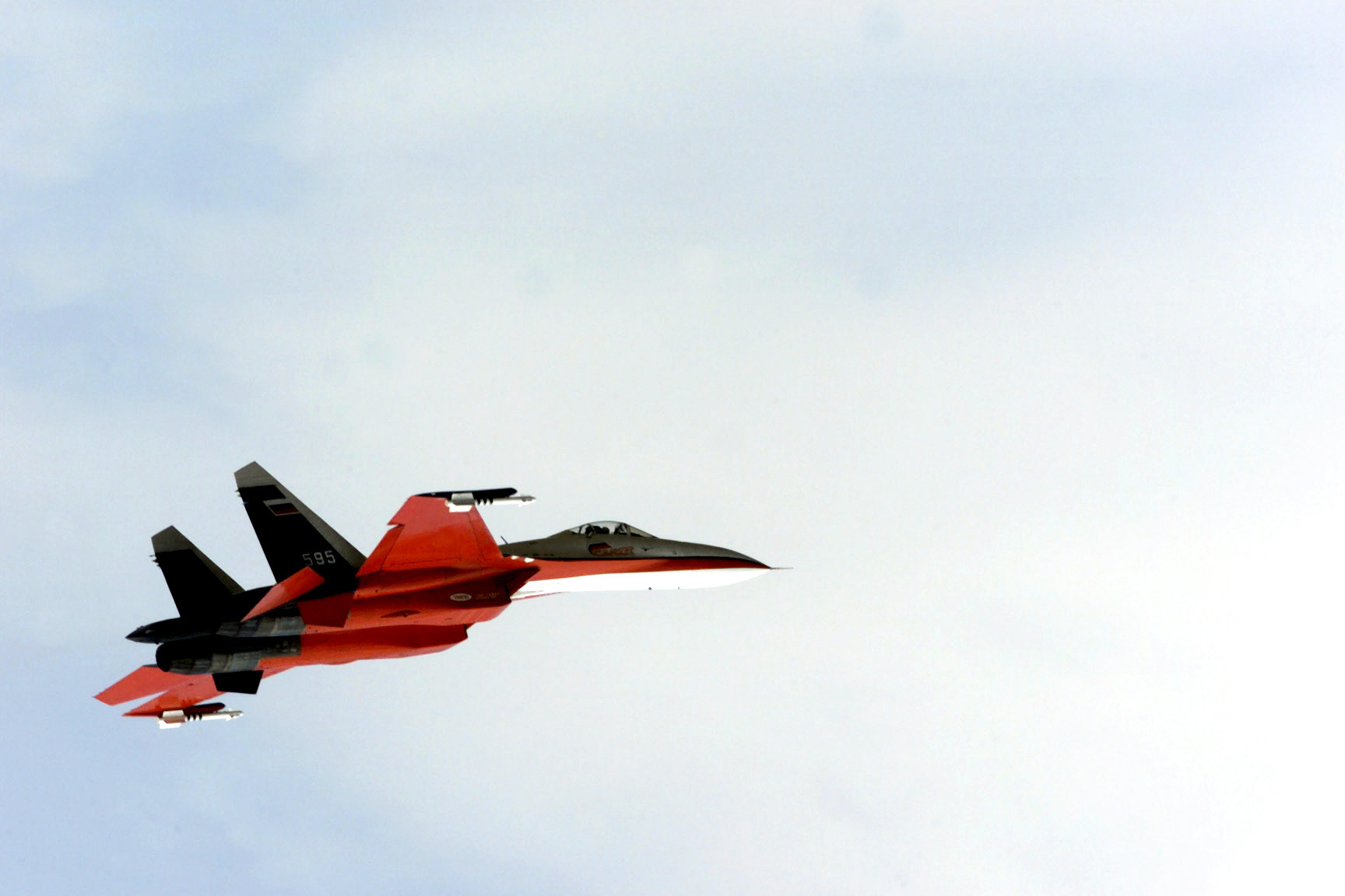 A. Kvochur, a show pilot for the Sukhoi Aircraft Manufacturer performs for the crowd in a Russian made Sukhoi Su-33 Flanker, during the LaComina Airshow held on June 11th, 2000, in Pordenone, Italy.